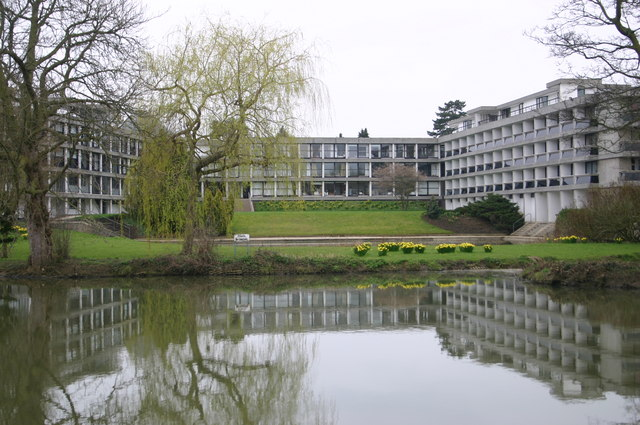 Wolfson College Across the River Cherwell Wolfson College